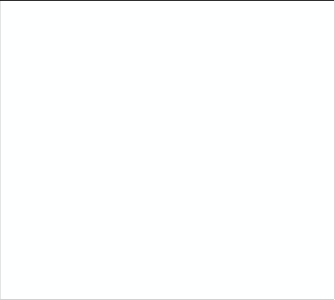 skali intensywności - prezentacja 7